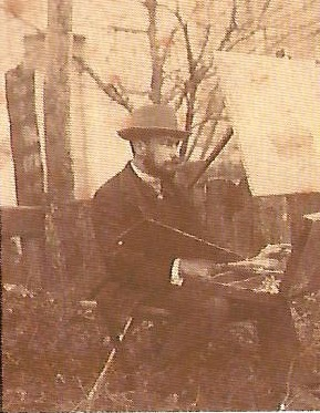 Part of a photograph of a young Henri Le Sidaner (painter) in Étaples.